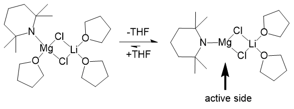 TMP-Turbo Hauser Base in solution